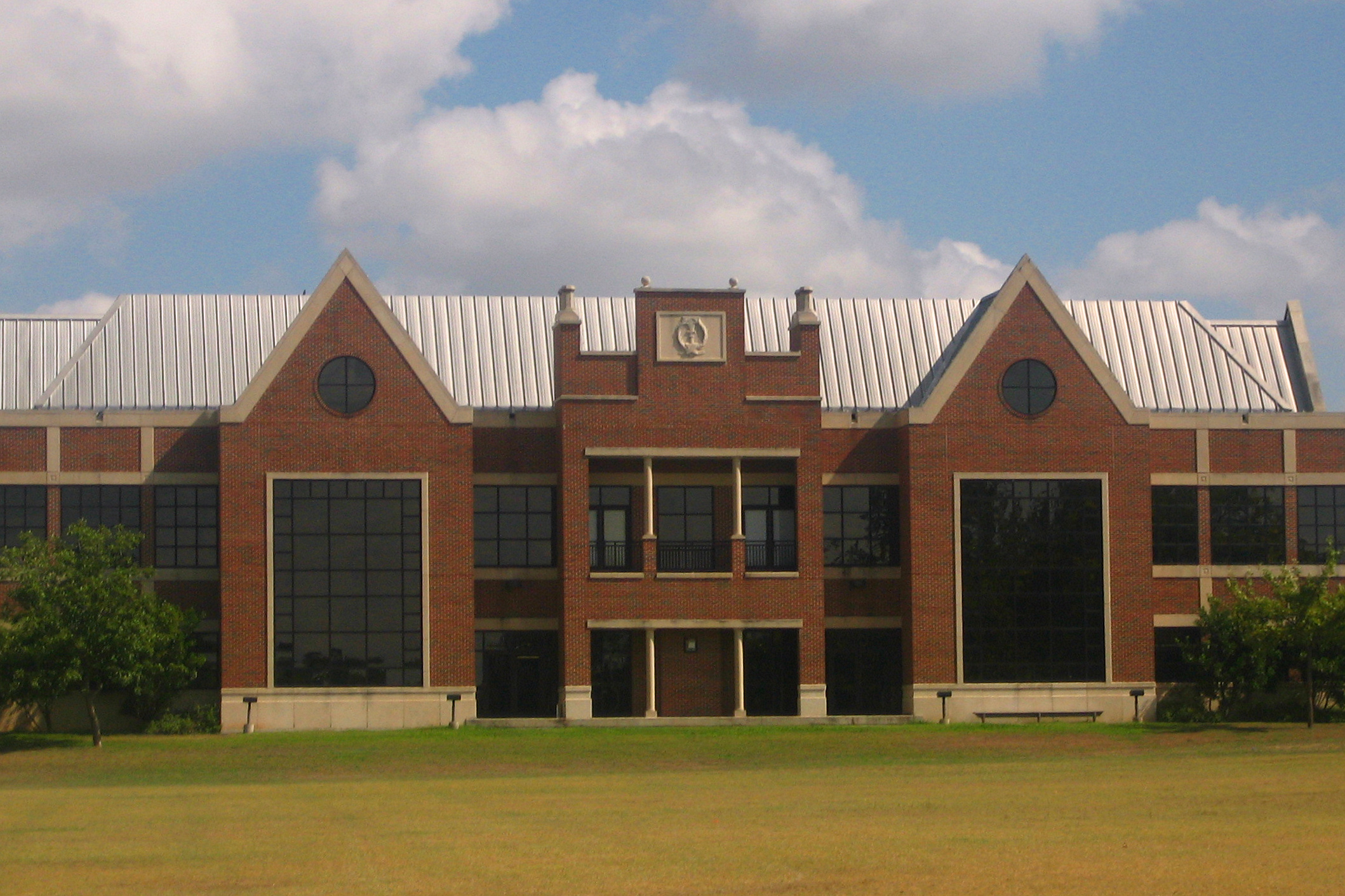 I took photo on July 19, 2008.